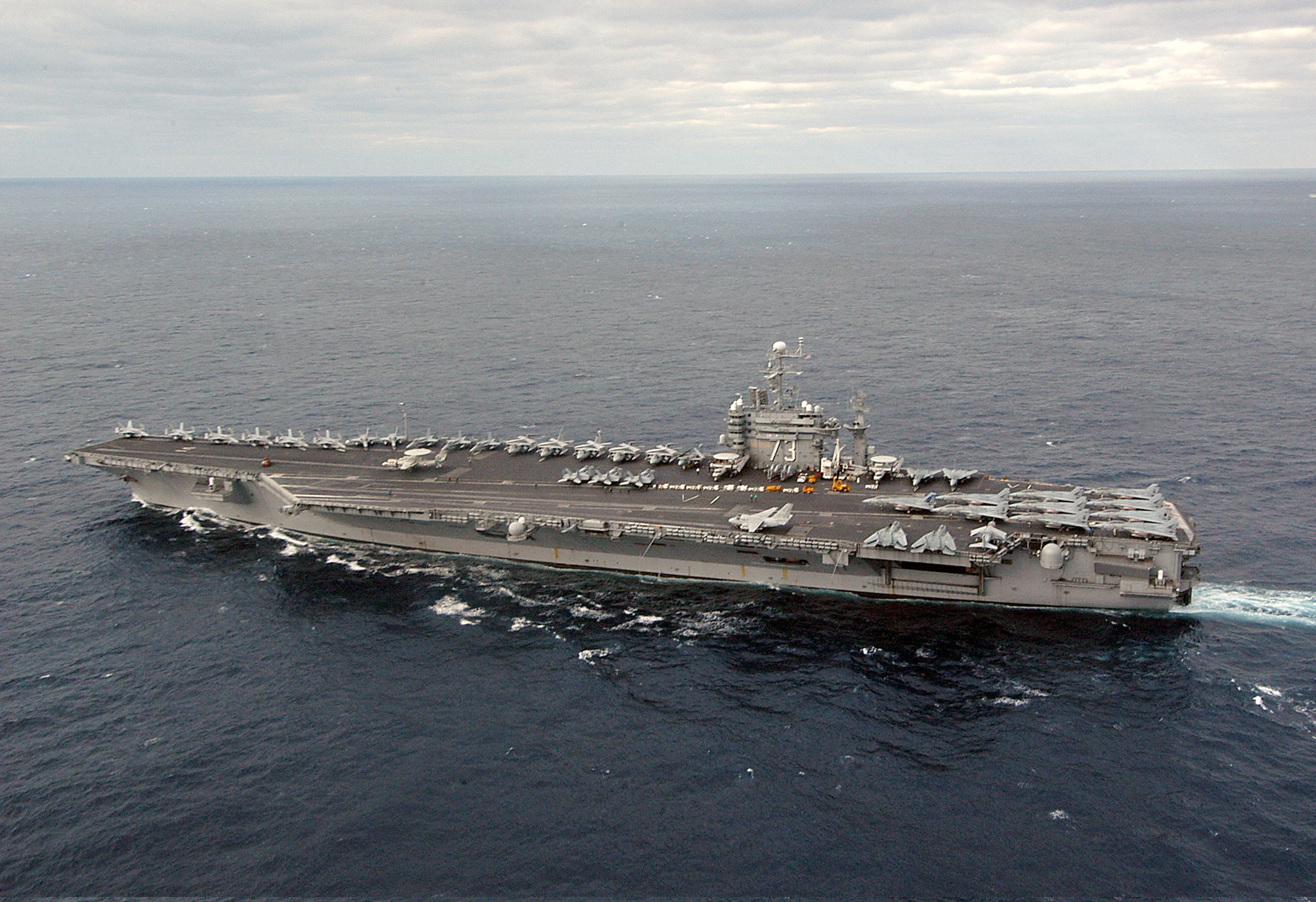 Atlantic Ocean (Nov. 30, 2003) -- USS George Washington (CVN 73) sails off the coast of Florida. The Norfolk, Va.-based nuclear powered aircraft carrier is conducting Composite Training Unit Exercise (COMPTUEX) in preparation for deployment. U.S. Navy photo by Photographer’s Mate Airman Joan Kretschmer. (RELEASED)